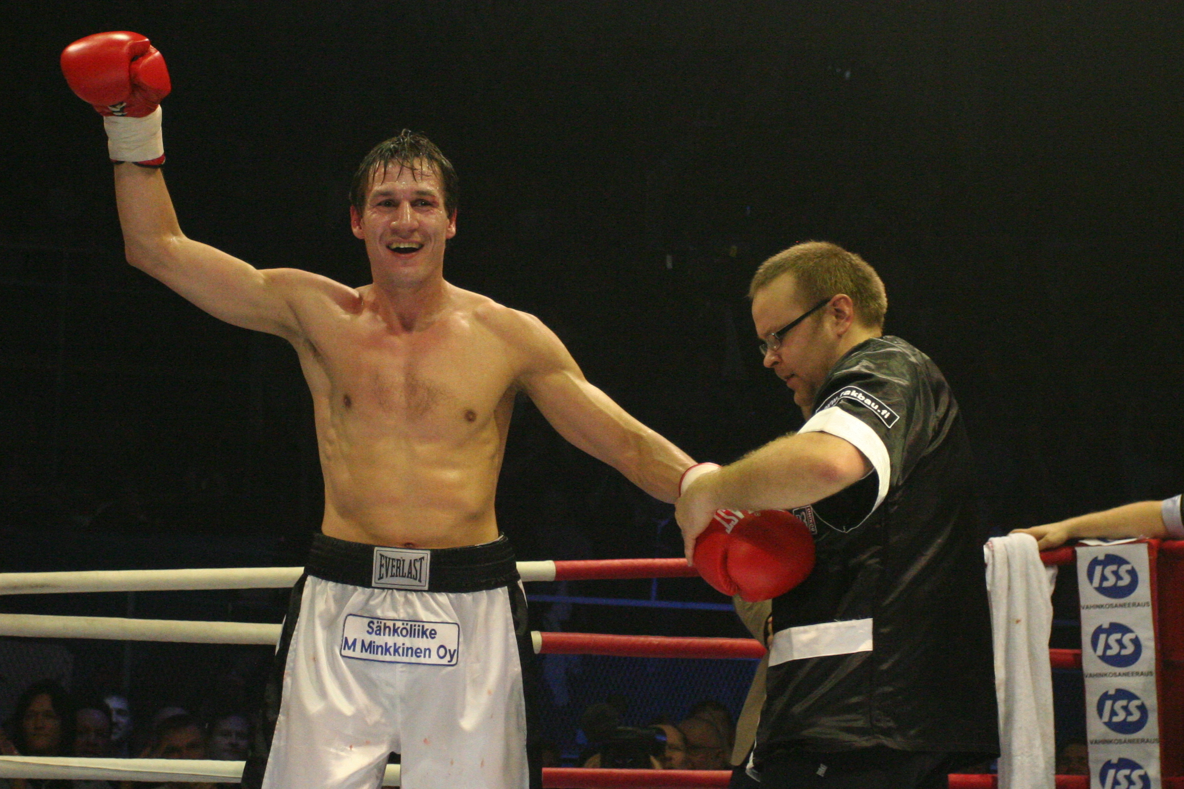 Professional boxer Amin Asikainen with his coach and manager Pekka Mäki. Photo by Jonny Smeds.